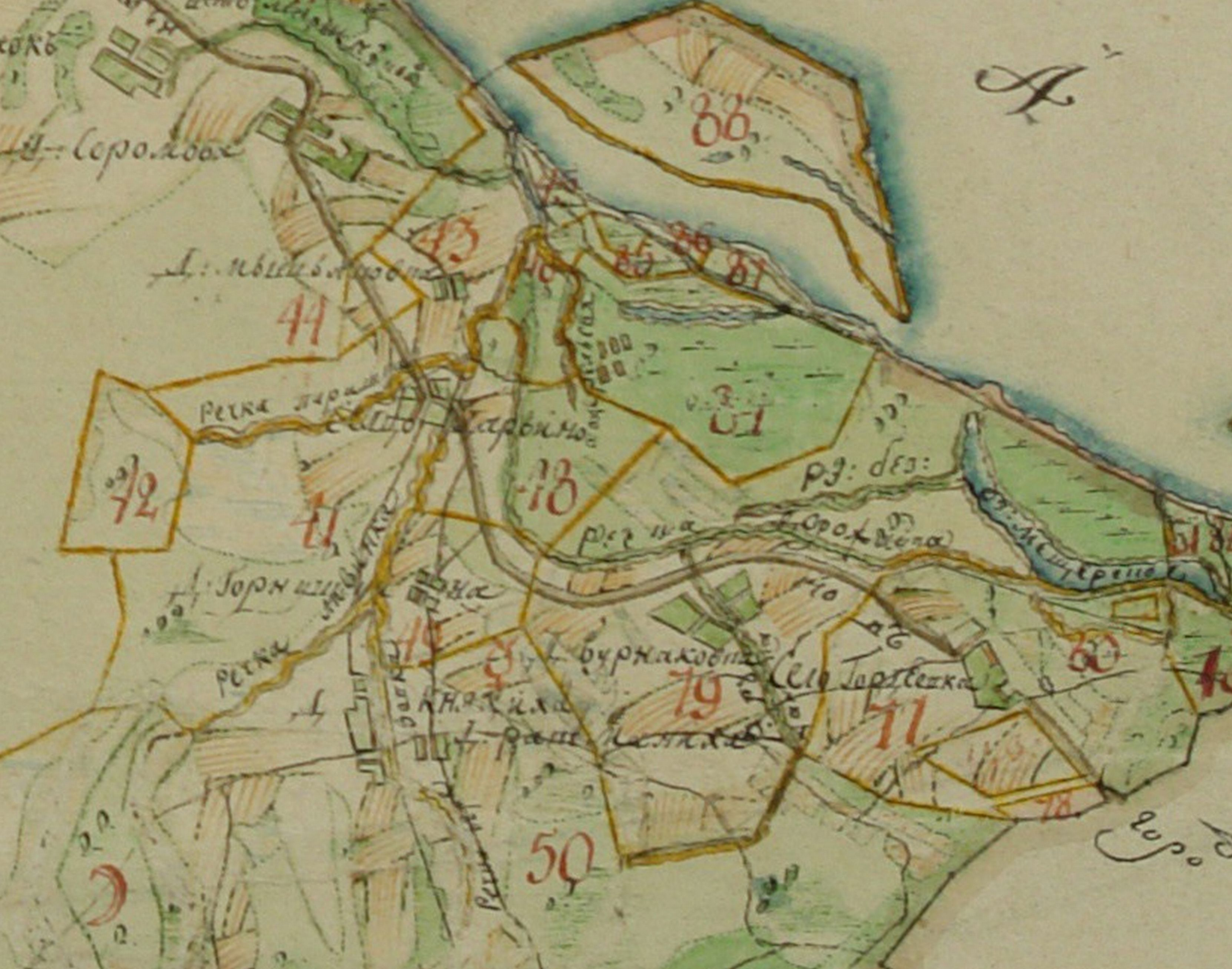 General plan of subdivision the Nizhni Novgorod Province 1778-1796